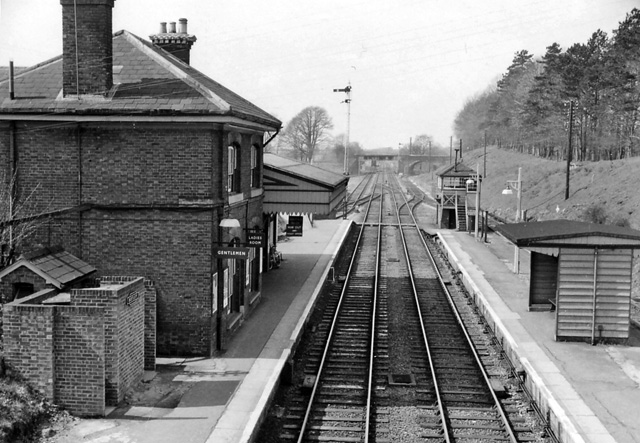 Botley Station. View NW, towards Eastleigh; ex-LSW Eastleigh - Fareham - Portsmouth secondary main line (recently electrified).